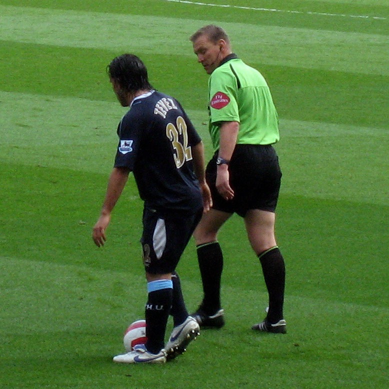 Carlos Tévez (left) in action for West Ham in a match against Arsenal.